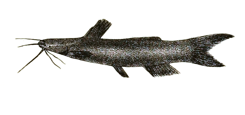 The species names / identity need verification. The original plates showed the fishes facing right and have been flipped here. Amblyceps mangois